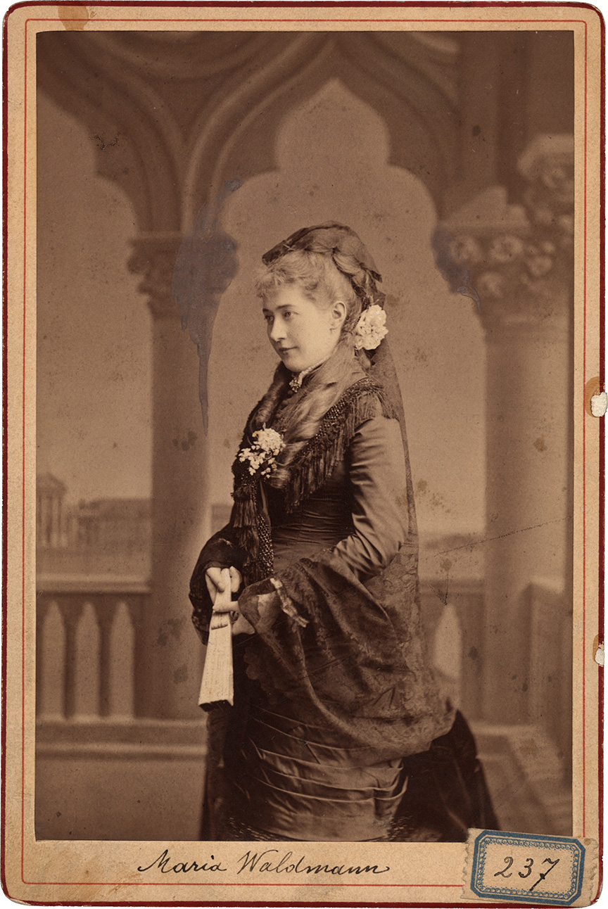 Portrait of Maria Waldmann, mezzosoprano (1844-1920). Photo by Fratelli Vianelli, Venezia, 1876.